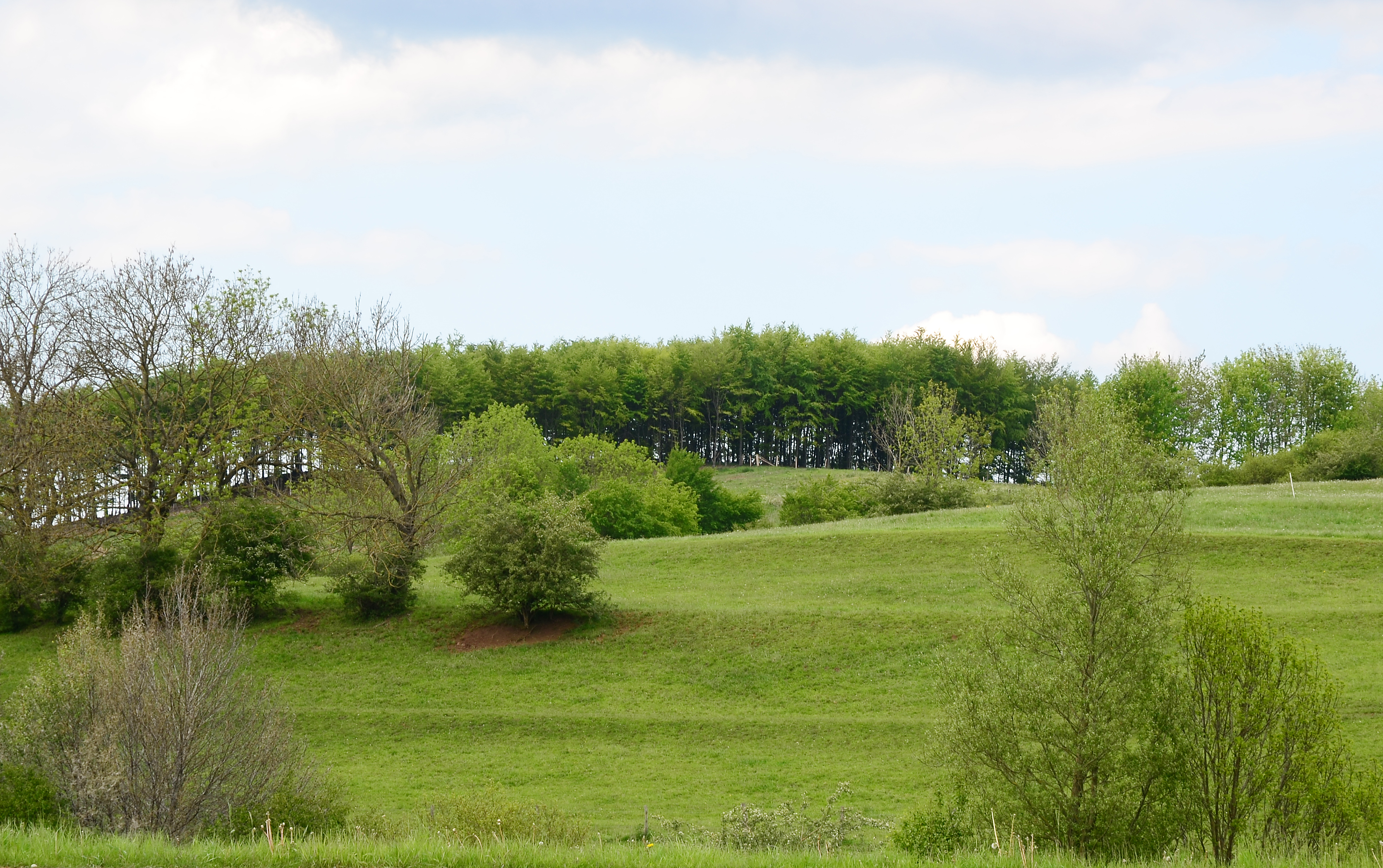 Nature reserve Hexenstein (1) Key number: HSK-536, Brilon, North Rhine-Westphalia, Germany.